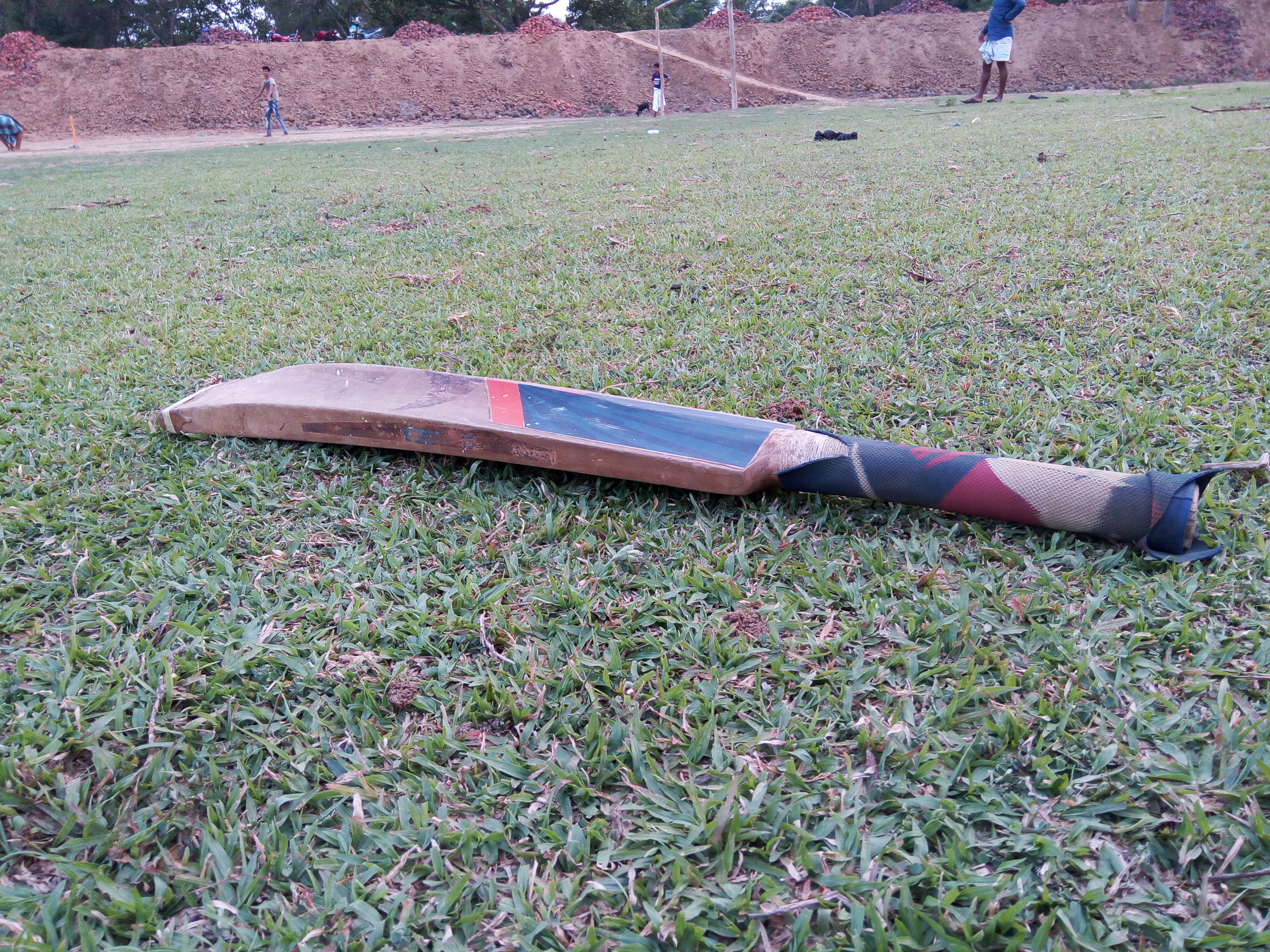 When a player out to his position. Then the bat realized.